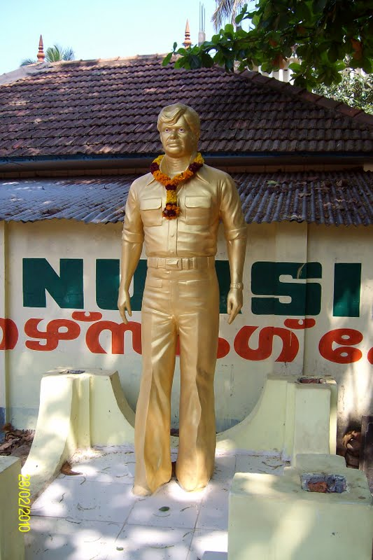 A still of Jayan Statue created by the author from the author's collection.